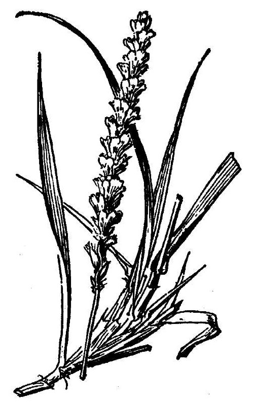 Pleuraphis mutica from Hitchcock, A.S. (rev. A. Chase). 1950. Manual of the grasses of the United States. USDA Miscellaneous Publication No. 200. Washington, DC. 1950.